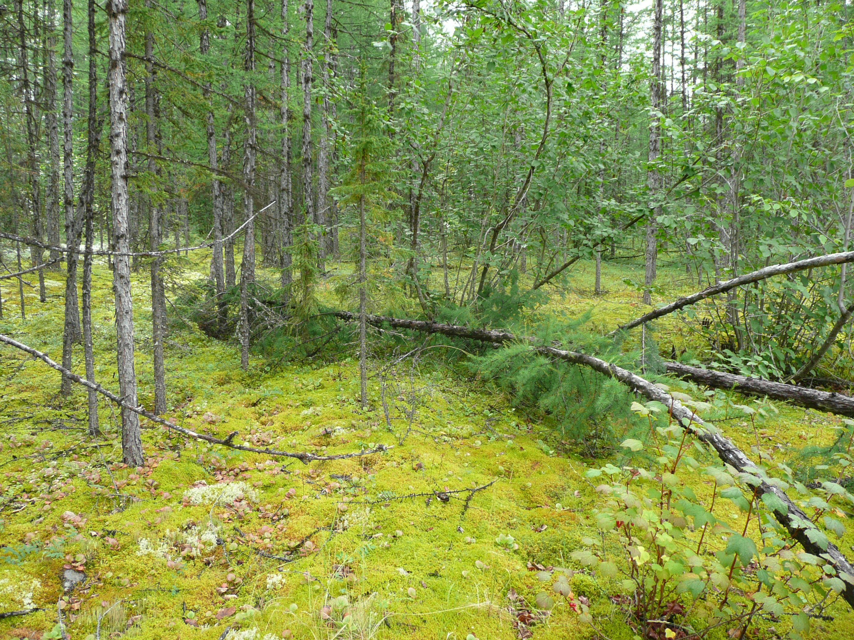 Forest near Toungouska